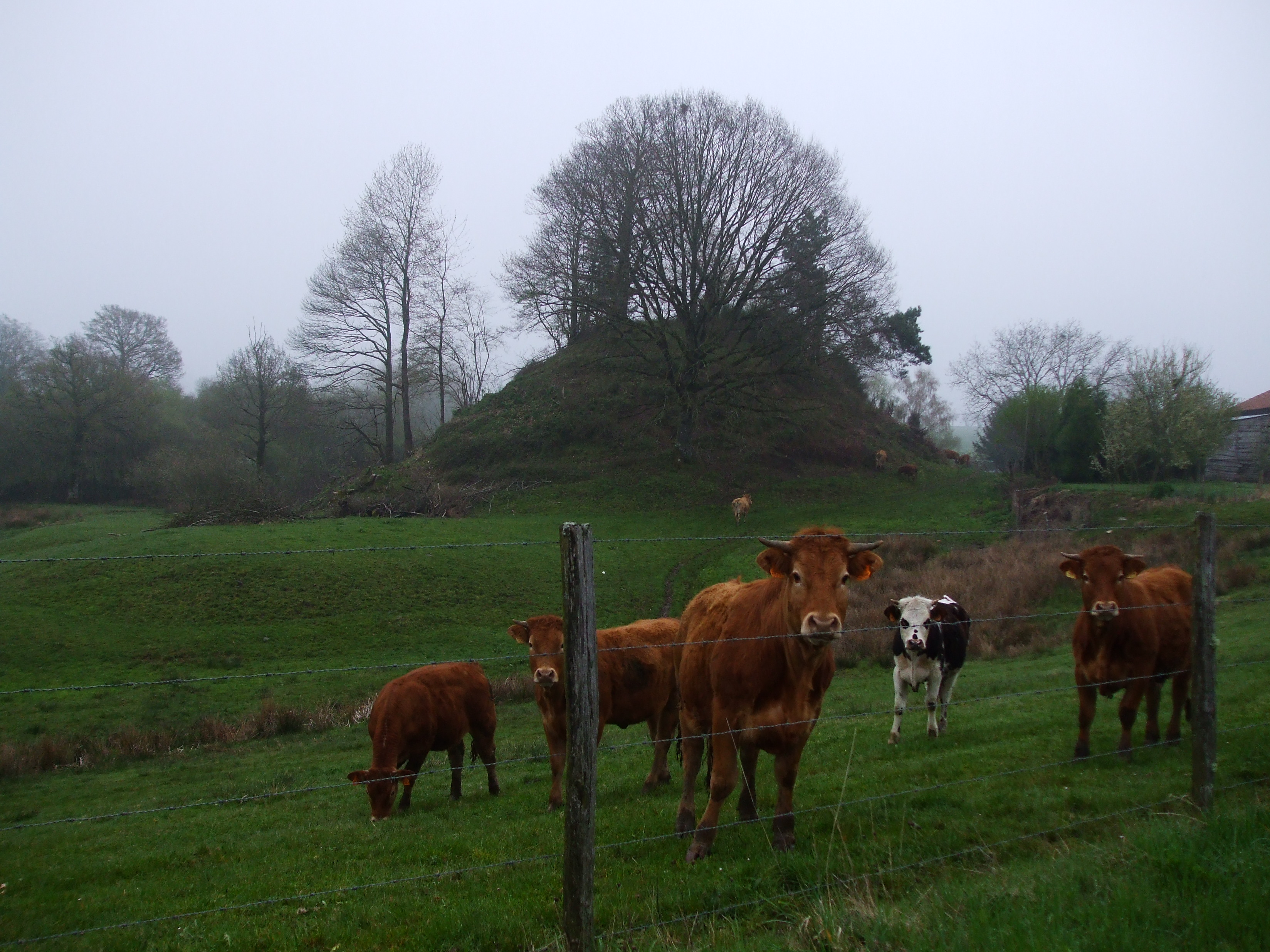 Motte and bailey, Le Mazeaubrun, Châlus, Haute-Vienne, France (with cows)